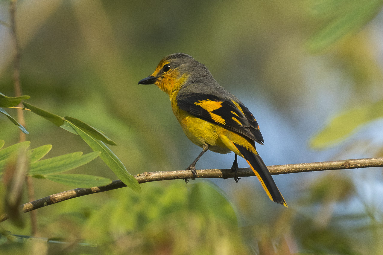 Long-tailed Minivet fem - Arunachal Pradesh - IndiaFJ0A7490